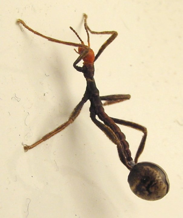 Young Extatosoma tiaratum, with egg still attached.